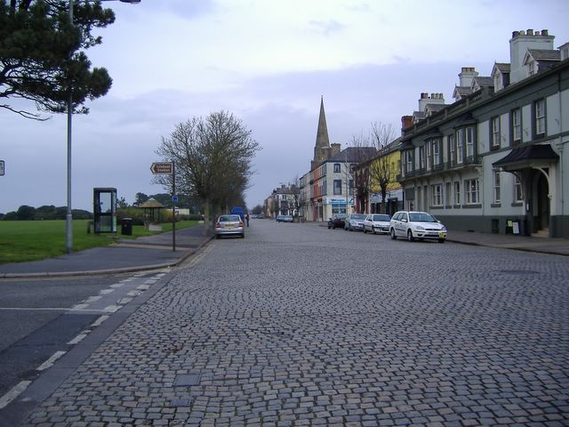 Criffel street The granite setts can be very slippery when damp.